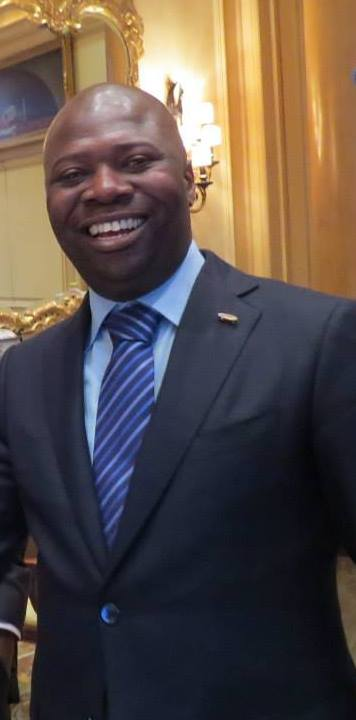 Lucien Ebata with Orion Oil at Paris Signing